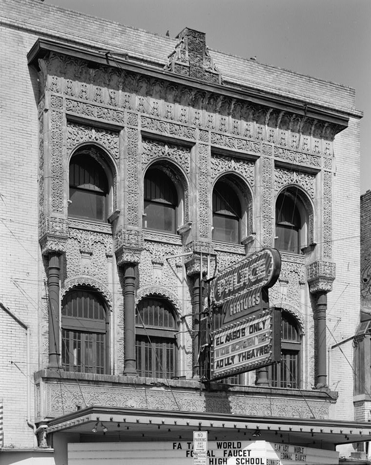 Alhambra / Palace Theater, El Paso, Texas. Listed on the national Register of Historic Places. Historic American Buildings Survey—HABS image.